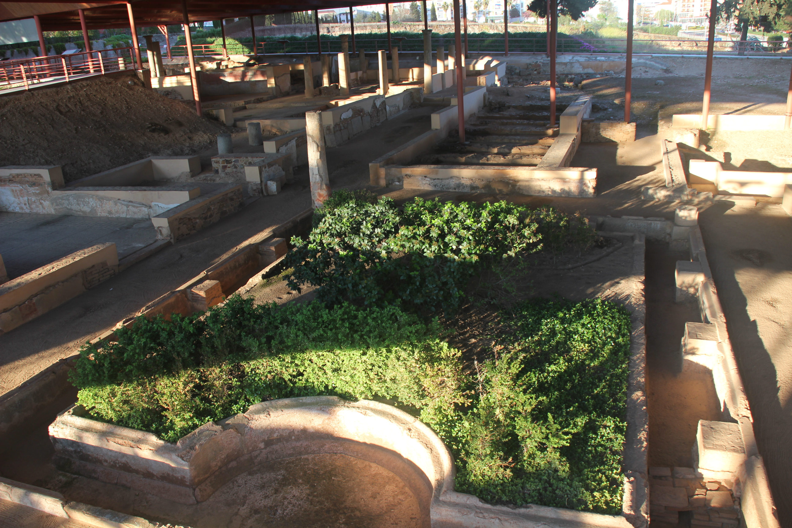 Casa del Mitreo in Mérida